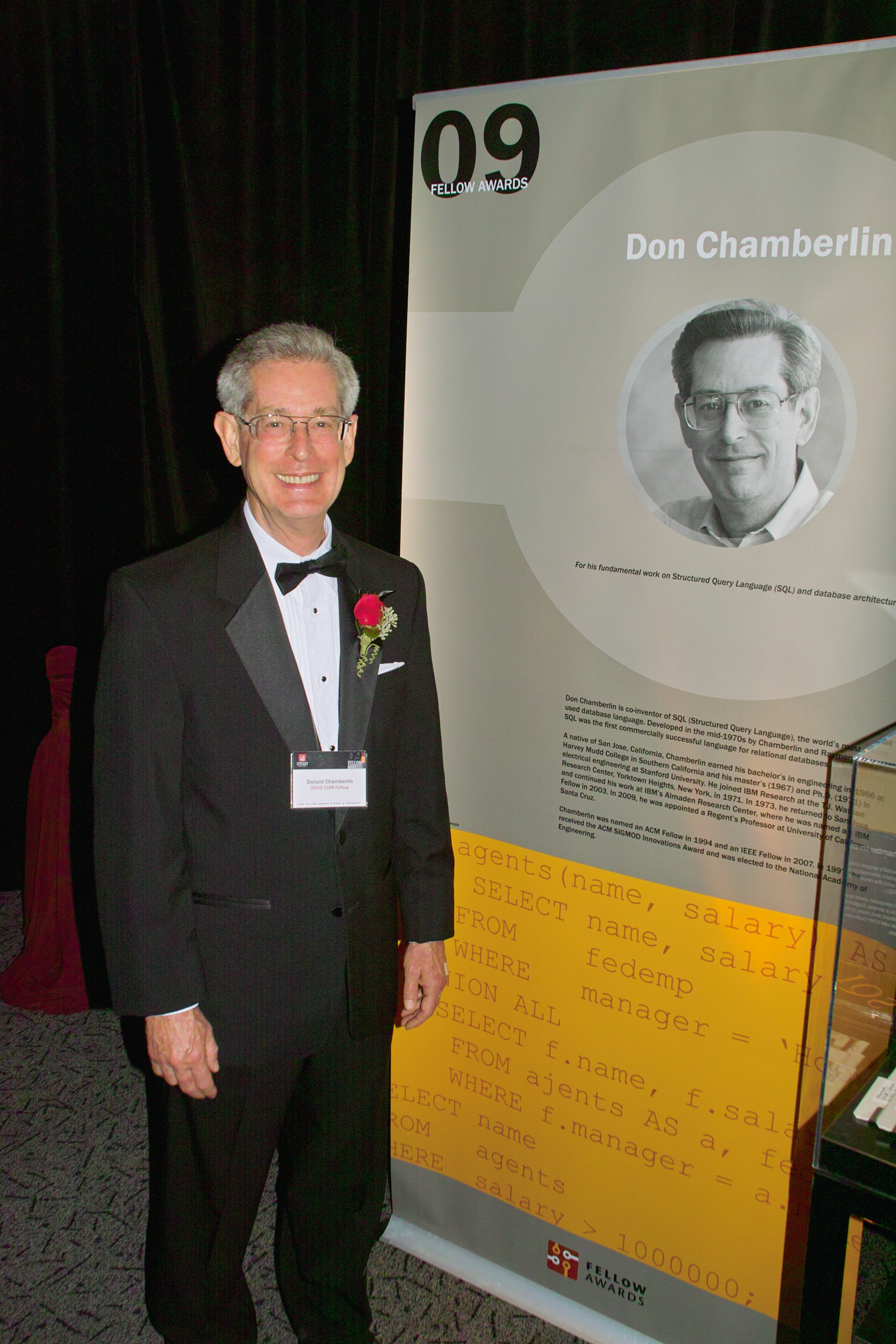 Don Chamberlin, at the Computer History Museum's 2009 Fellows Award event, where he was inducted a Fellow.